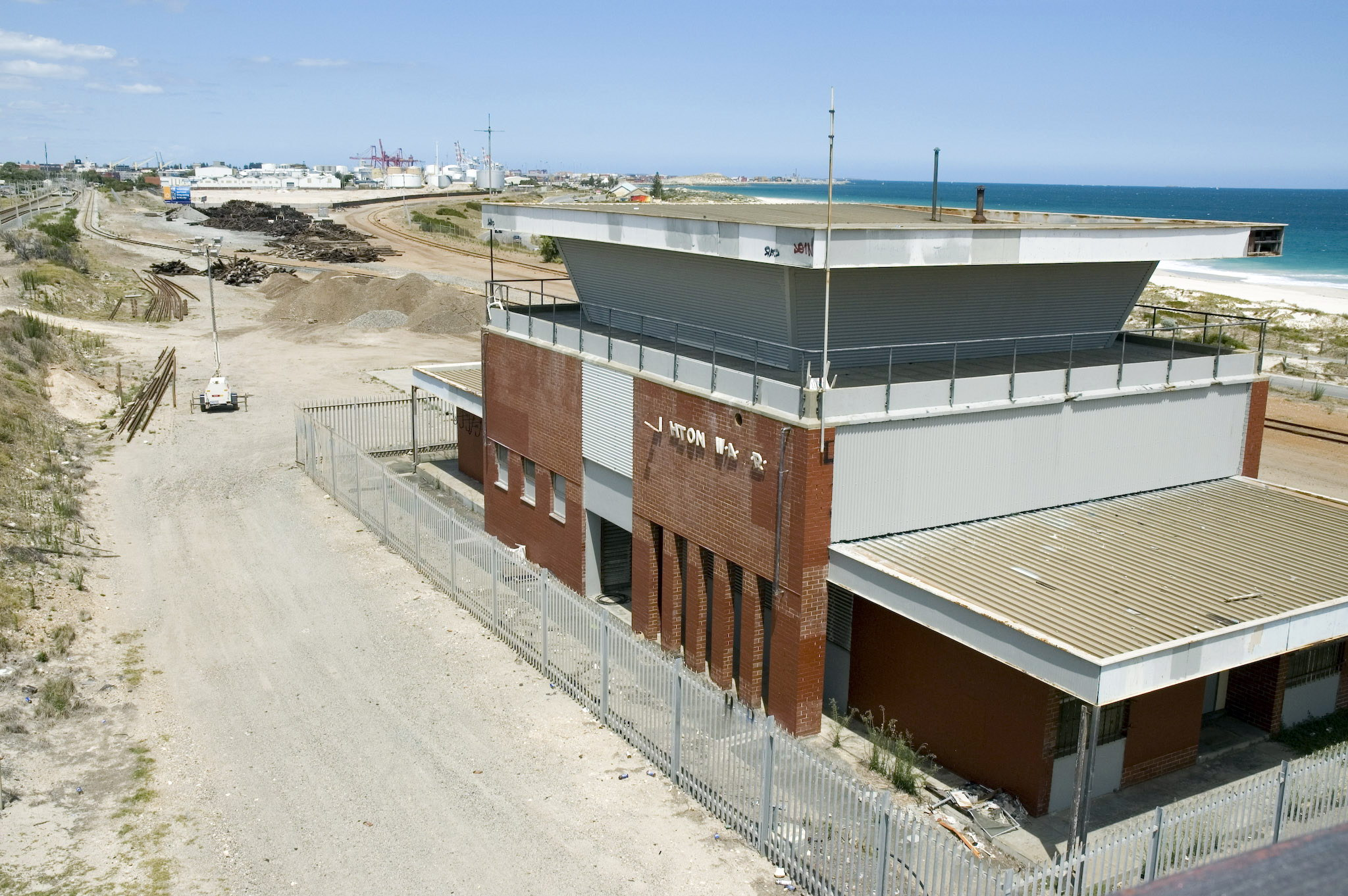 Old WAGR Marshalling Yard buildings at Leighton, Western Australia with rails lifted .